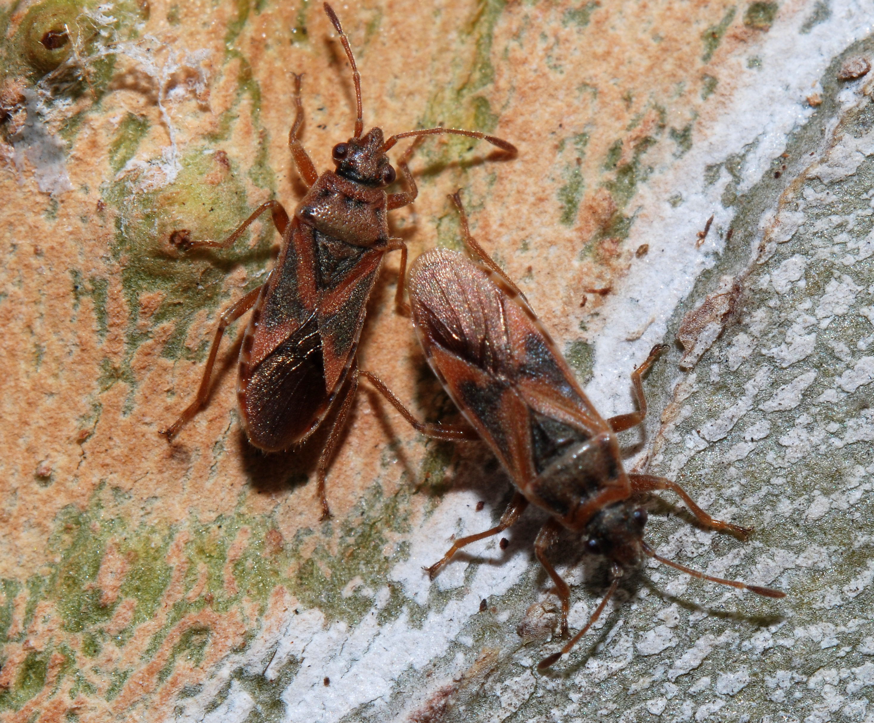 Ground bugs (Arocatus roeselii).